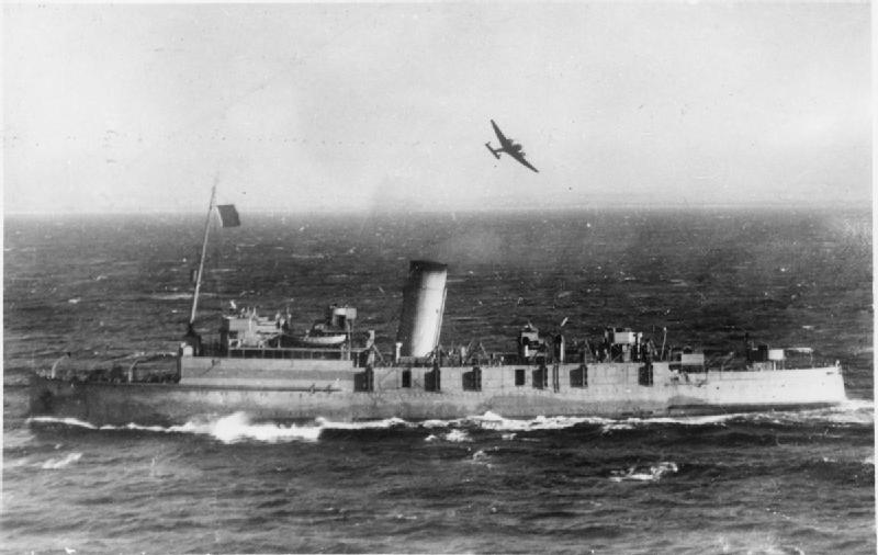 IWM caption: HMS Canterbury underway, at sea. Comment : this is not the cruiser HMS Canterbury (it only has one funnel, superstructure is wrong, far too small. Looks like a converted merchant ship. Comment : HMS Canterbury in World War II was the converted single funnel passenger ferry TSS Canterbury (1929) - the World War I two funnel cruiser was disposed circa 1934